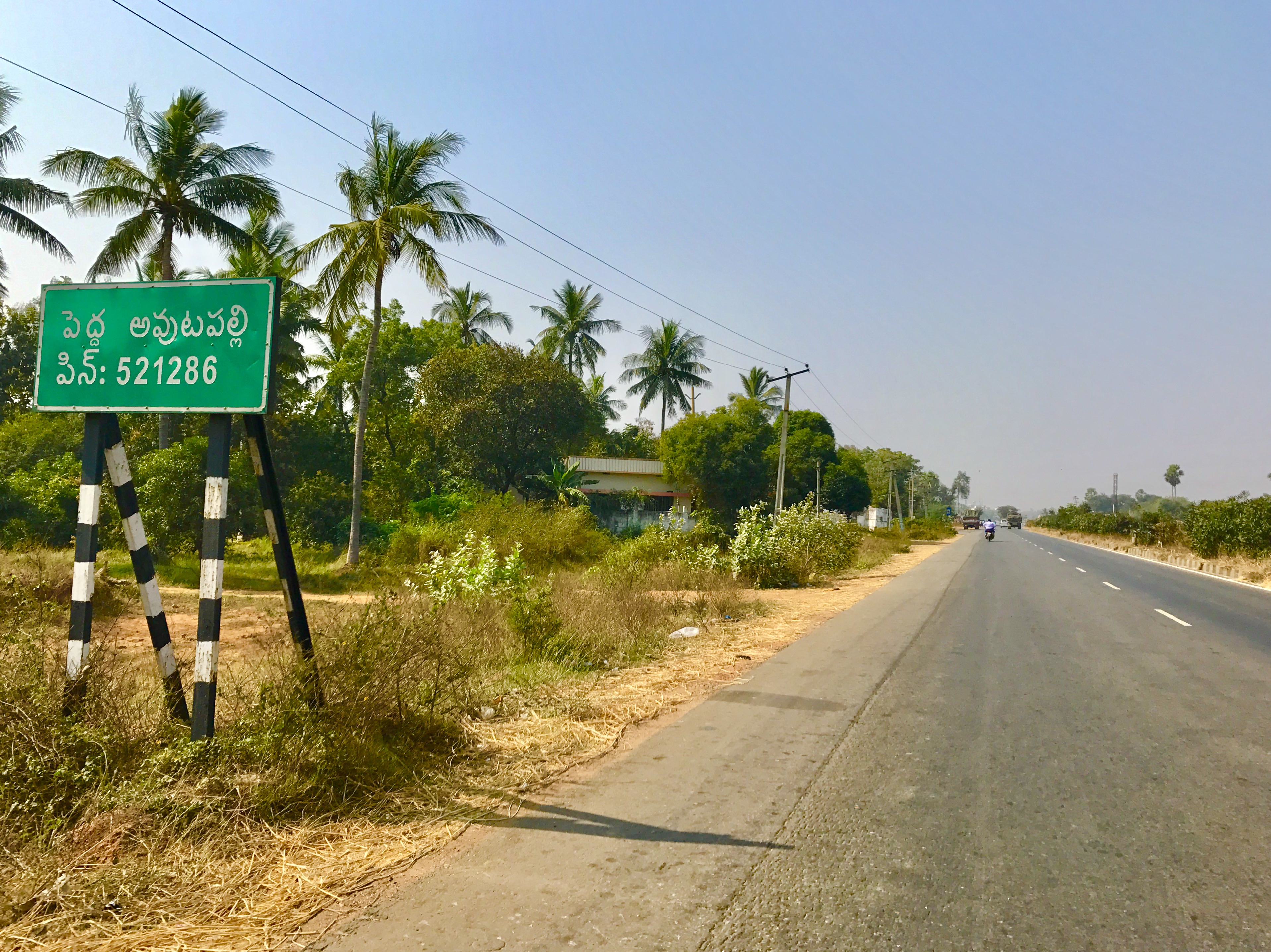 Peda Avutapalle Board on AH-45